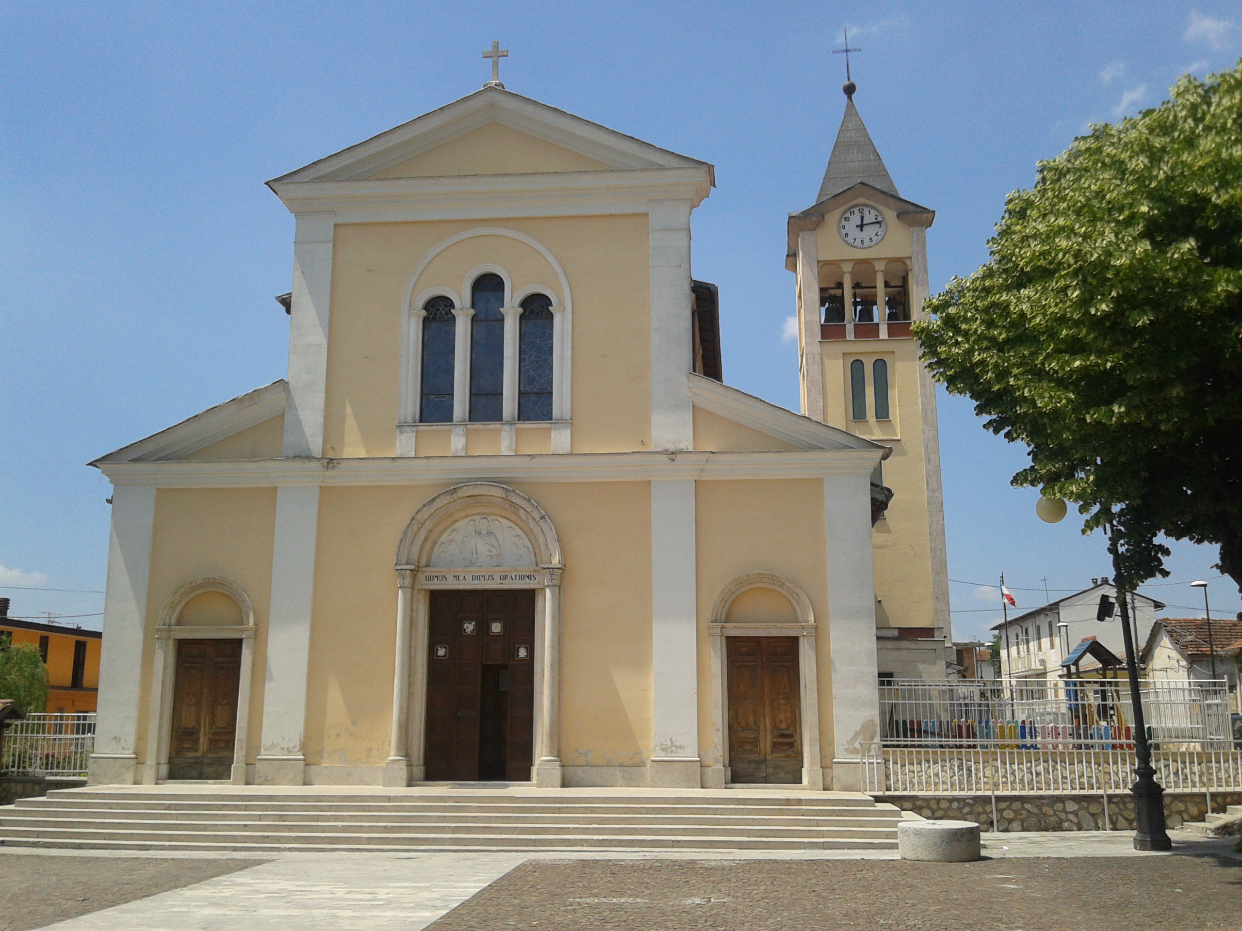 Church of St Michael the Archangel, San Pelino, Avezzano, Abruzzo, Italy